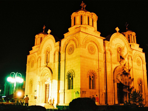 Church of the Holy Trinity of Leskovac Depicted place: Church of the Holy Trinity of Leskovac